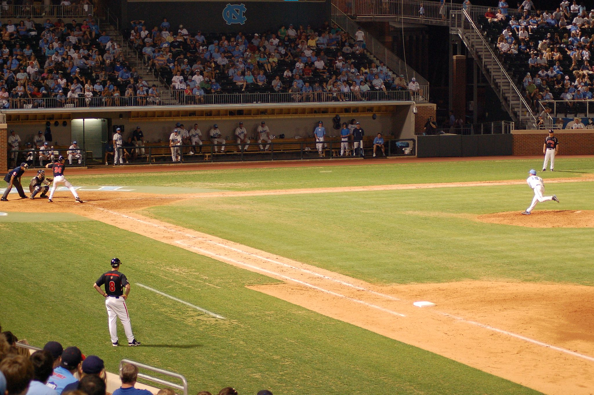 College baseball field